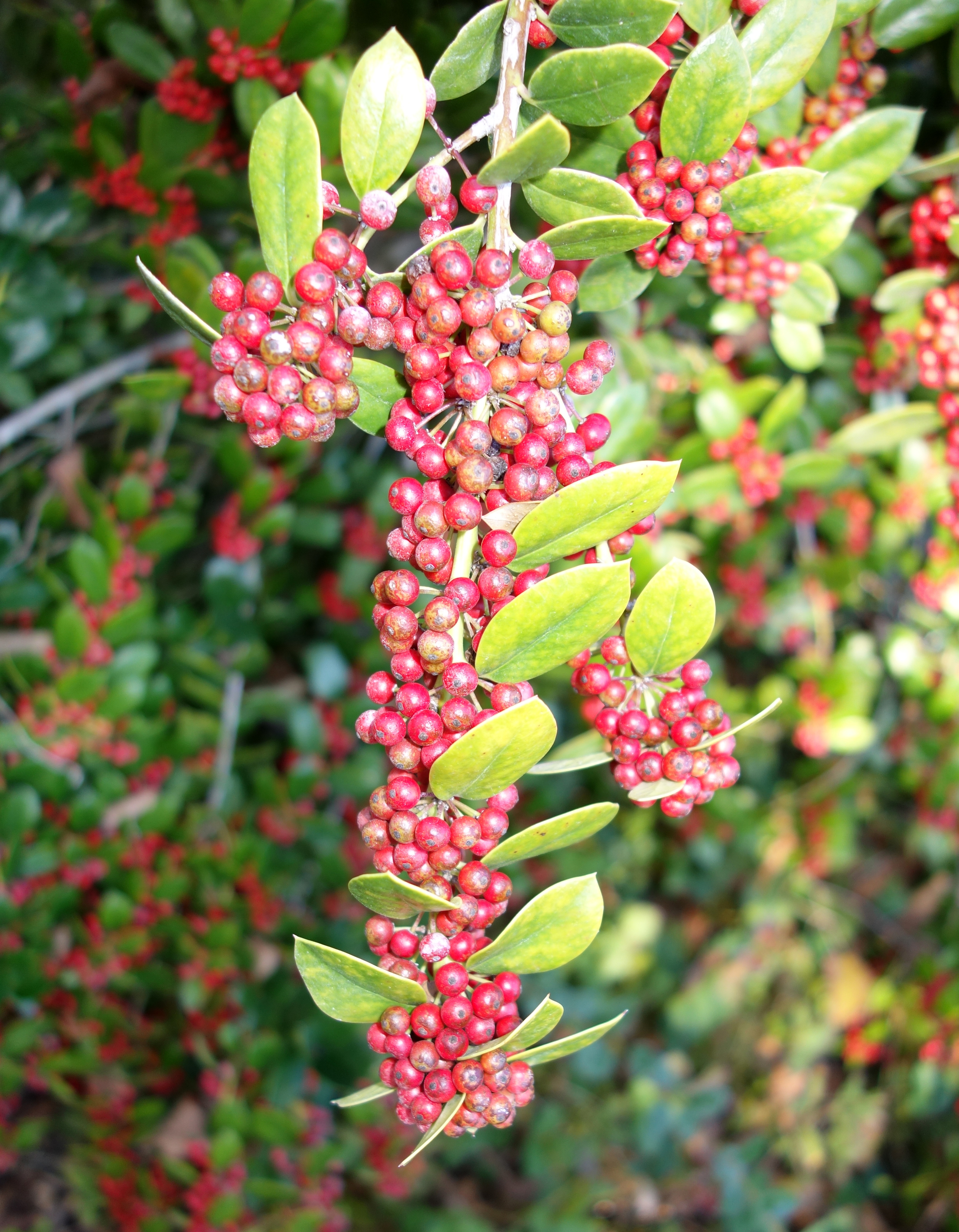 Botanical specimen in Quarryhill Botanical Garden, Glen Ellen, California, USA.